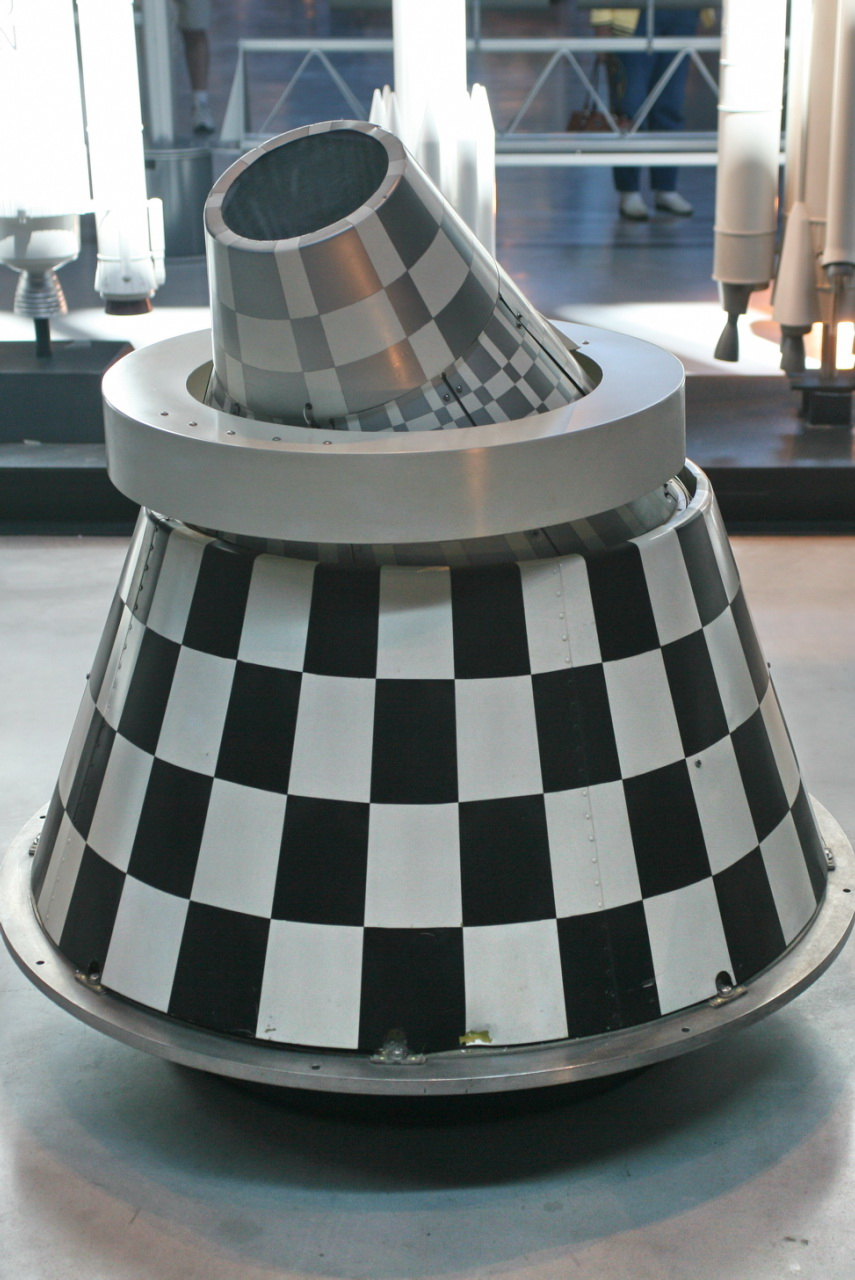 Aerojet ElectroSystems built this Series III infrared sensor payload for use in Missile Defense Alarm System (MIDAS) satellites, one part of a U.S. Air Force program beginning in the late 1950s to provide early warning of a Soviet missile attack. The Series III was designed to detect and track the hot exhaust gases of missiles at launch and during the boost phase. This data would be relayed to ground stations to give up to thirty minutes warning of an attack. A Series III in May 1963 became the first space-based sensor to detect successfully a missile launch. MIDAS was cancelled in the late 1960s, and the more advanced Defense Support Program early warning satellites were launched beginning in 1970. The manufacturer donated this unflown artifact to NASM in 1969.